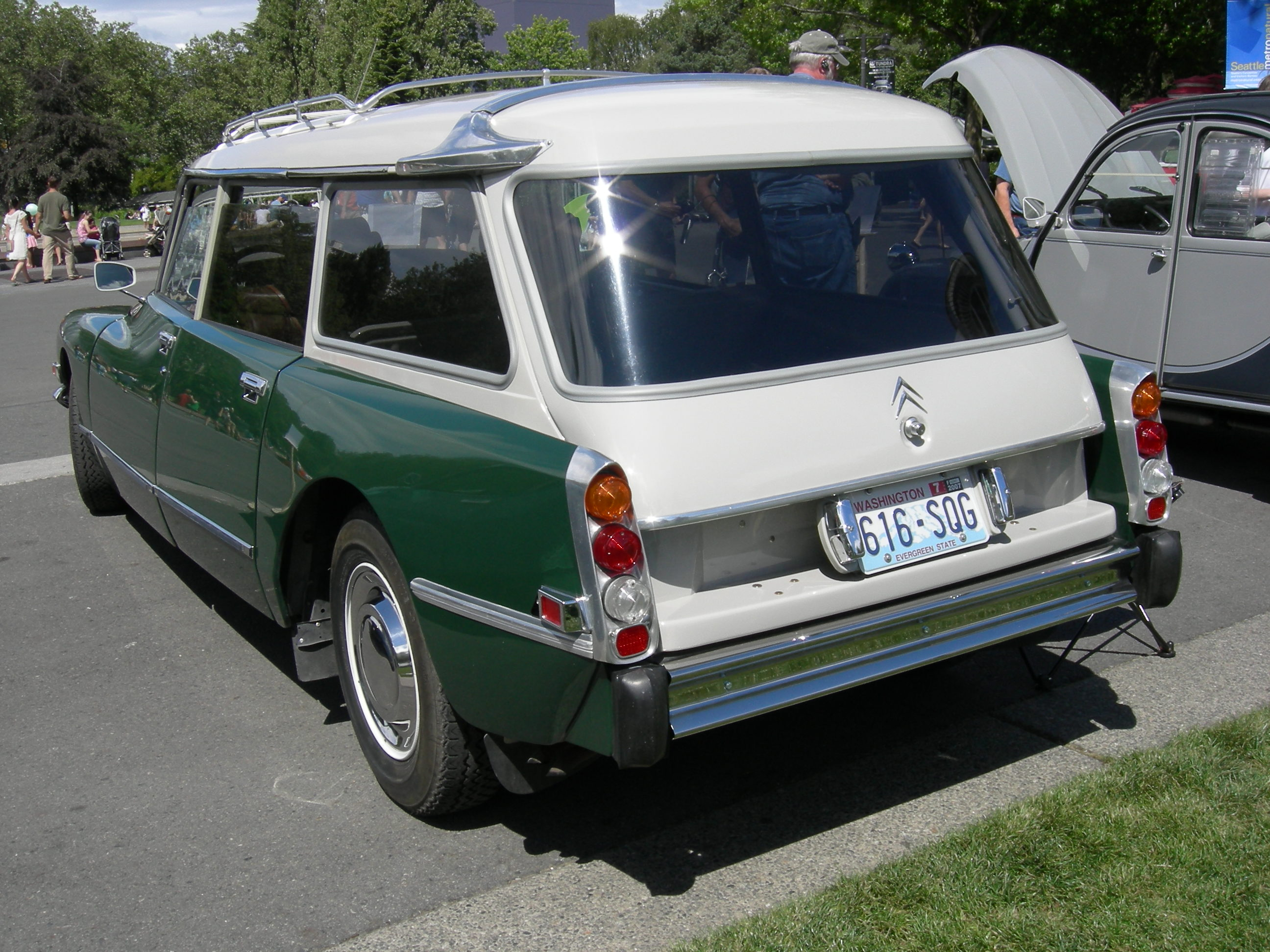 1972 Citroën DS station wagon at the Bastille Day celebration that is part of the Festál series of festivals at Seattle Center, Seattle, Washington.